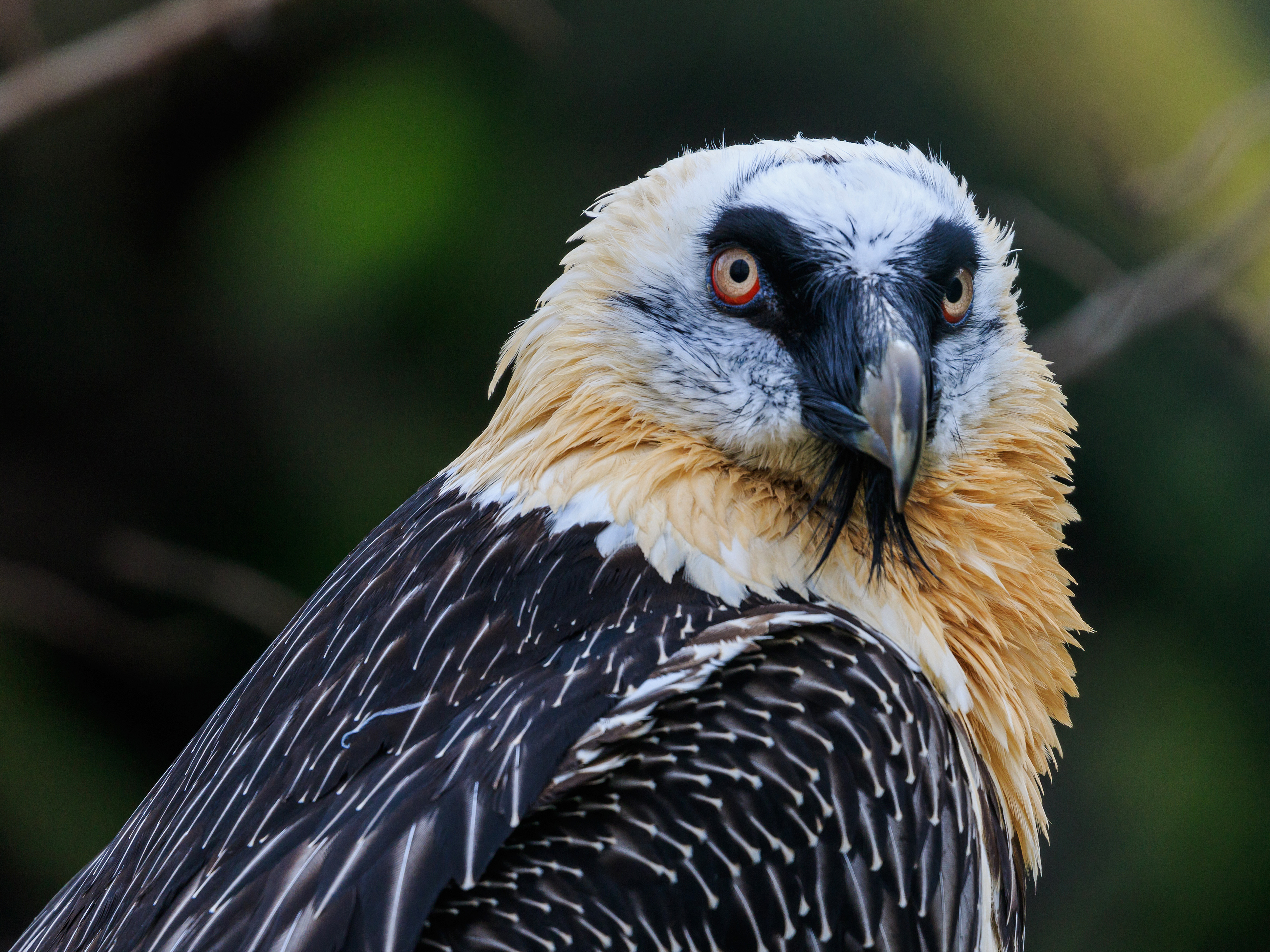 A Bearded vulture in the Berlin Tierpark (Friedrichsfelde zoo)